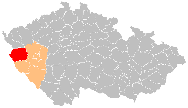 Tachov District within Plzen Region. Current borders of districts since January 1, 2007.